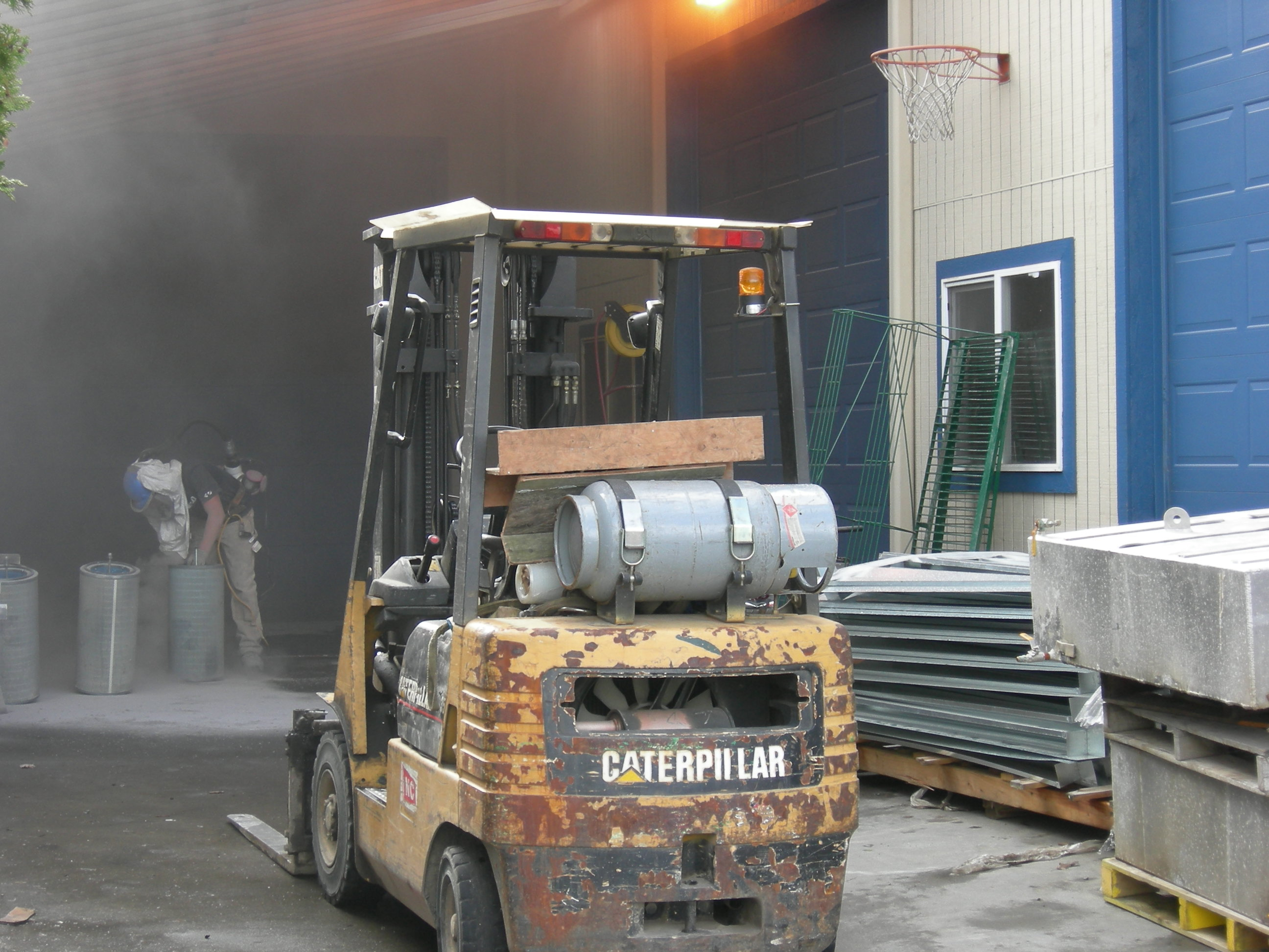 Steamcleaning in a yard on Ballard Avenue (historic district), Ballard, Seattle, Washington. The lower part of the avenue is still part of the working port.